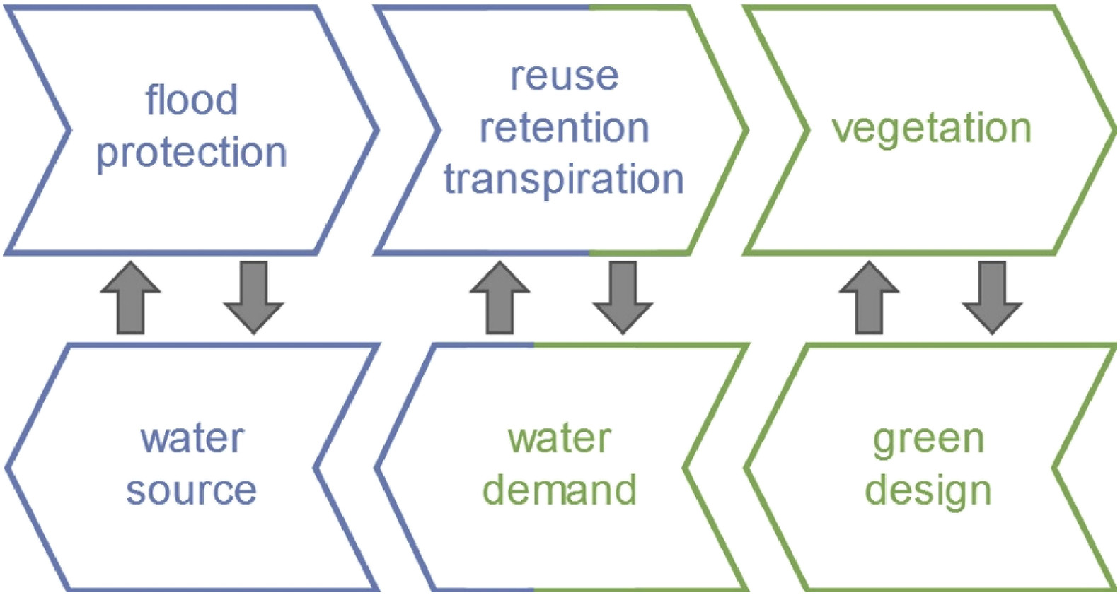 Combining blue and green motivated planning approaches into one integrated strategy. The procedure is already established on the urban and landscape scale but not on the building scale.